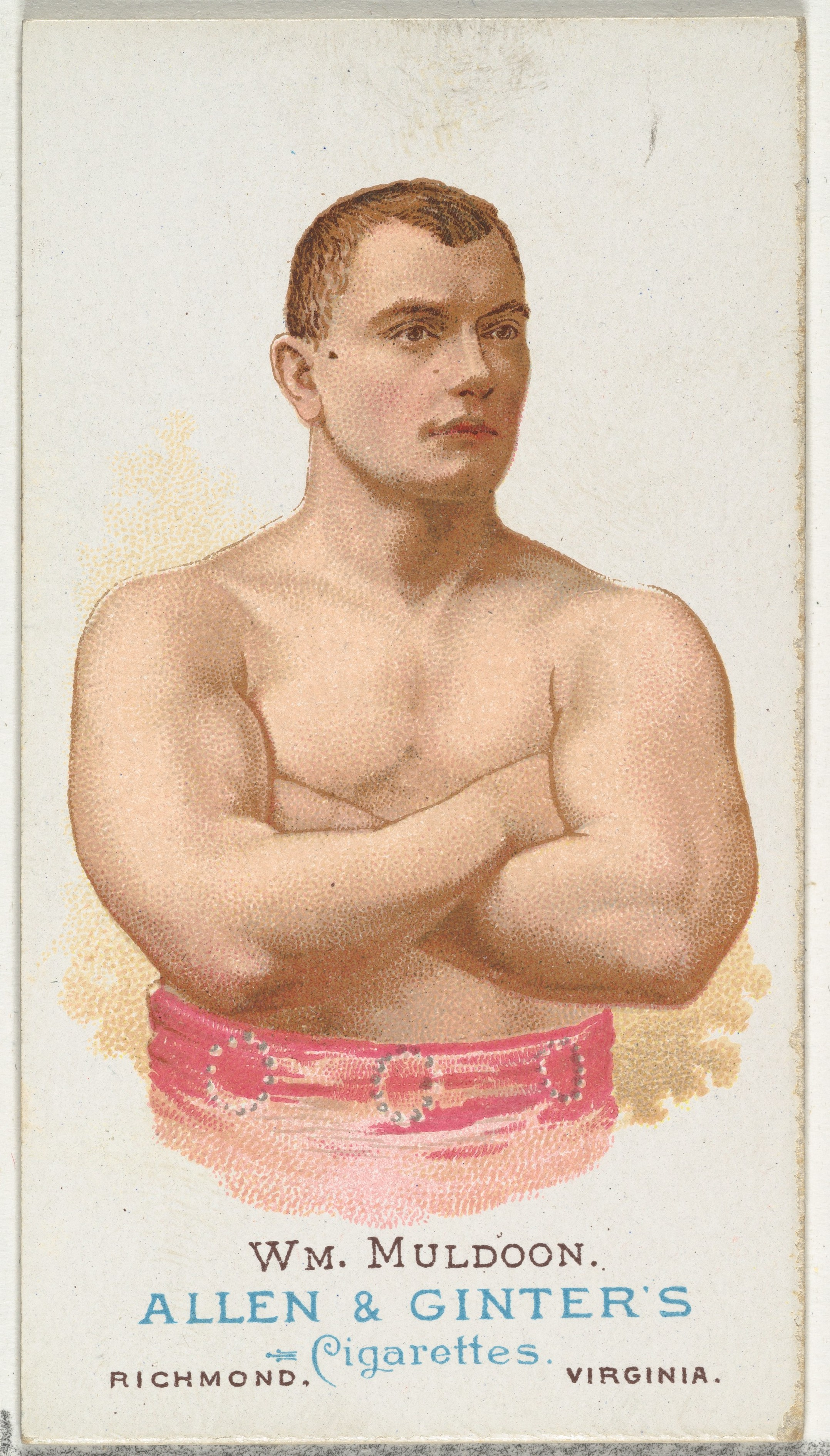 Print; Prints/Ephemera